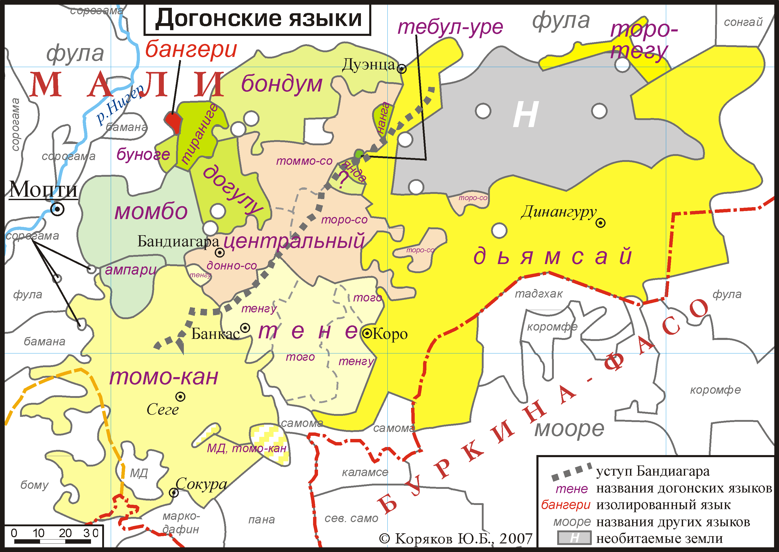 Map of Dogon languages.